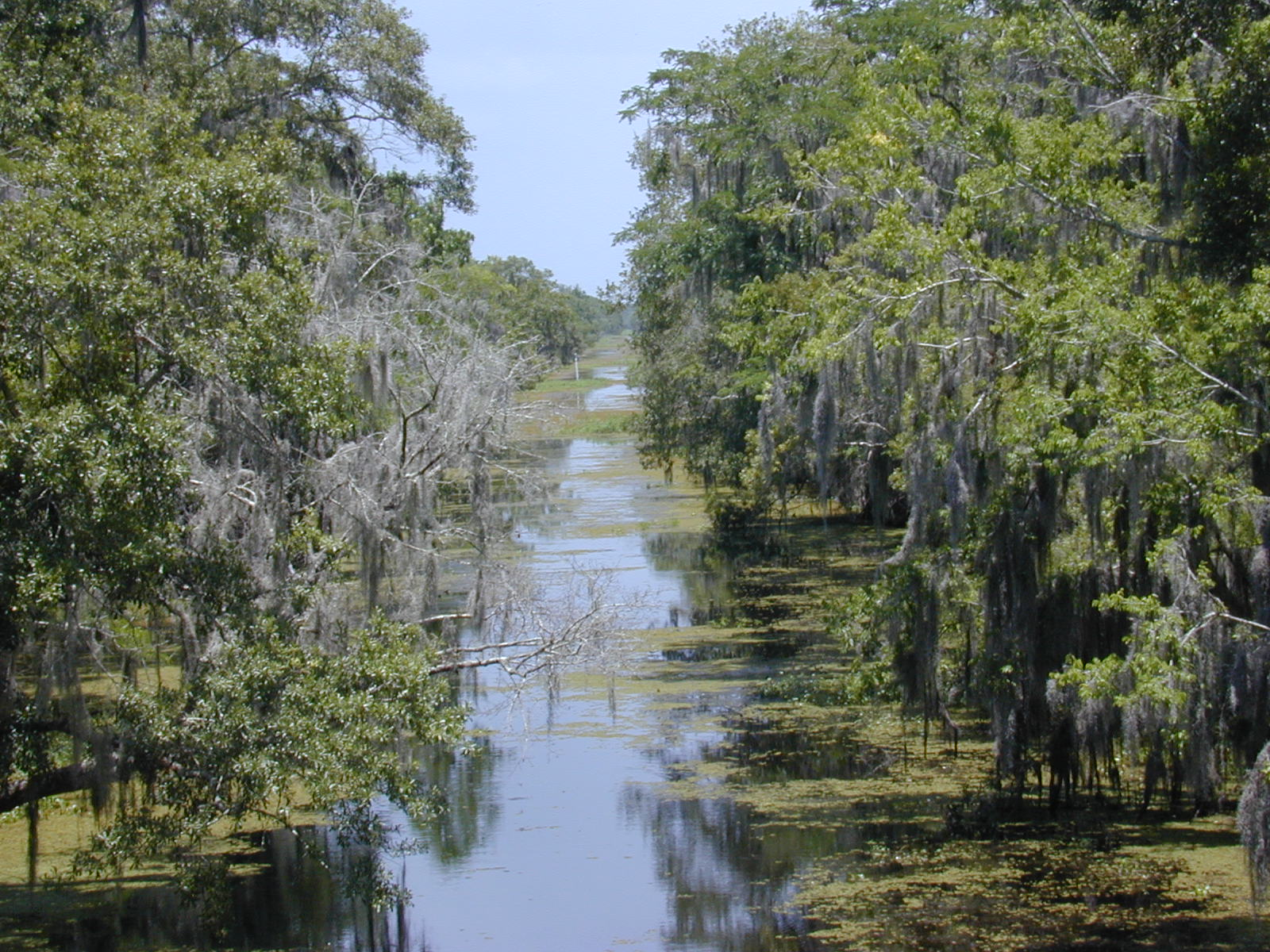 Kenta Canal at Barataria Preserve, Louisiana Photo by Jan Kronsell, 2004